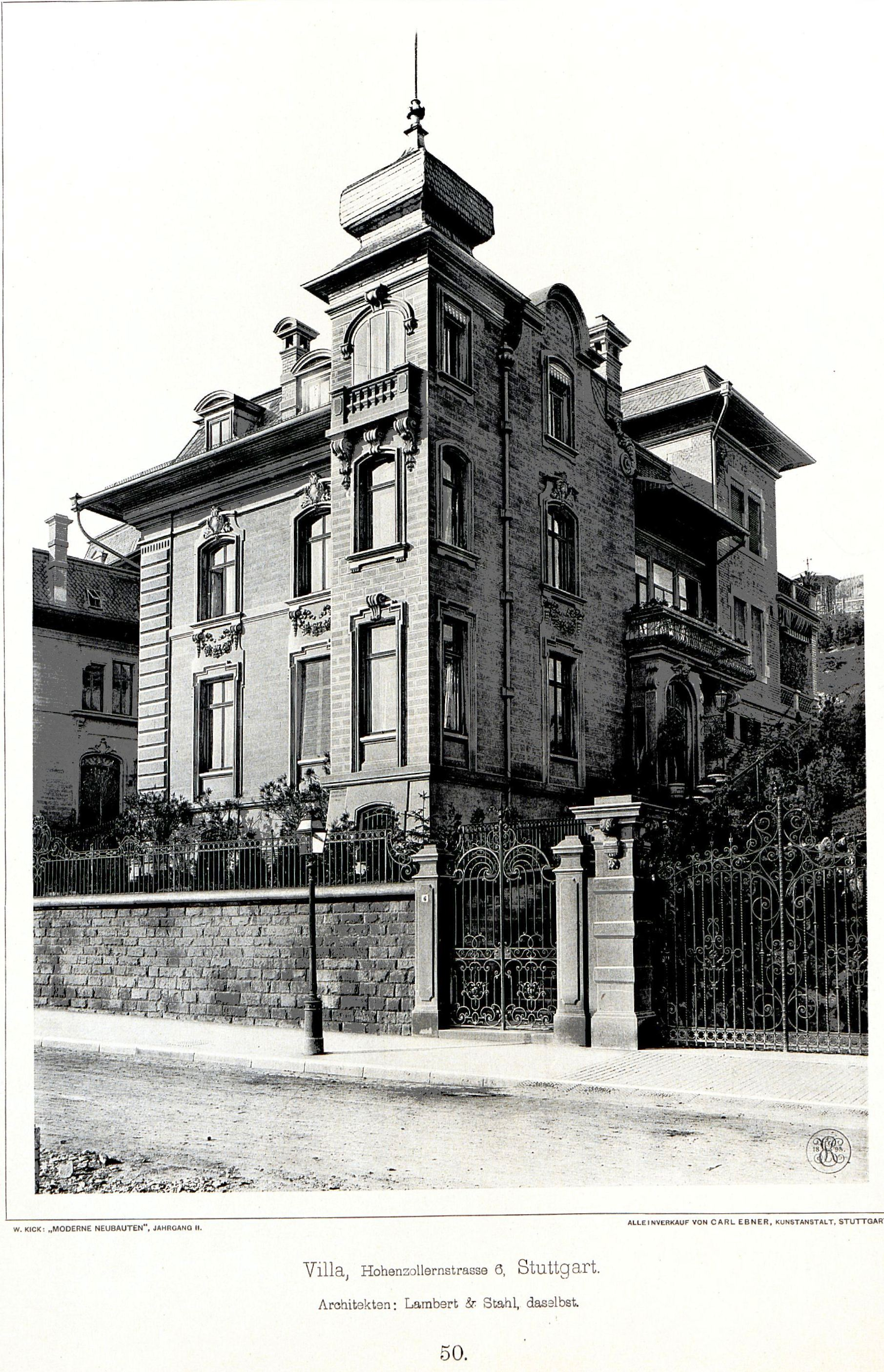 Villa_,_Hohenzollernstrasse_6,_Stuttgart,_Architekten_Lambert_&_Stahl,_Stuttgart,_Tafel_50,_Kick_Jahrgang_II.jpg